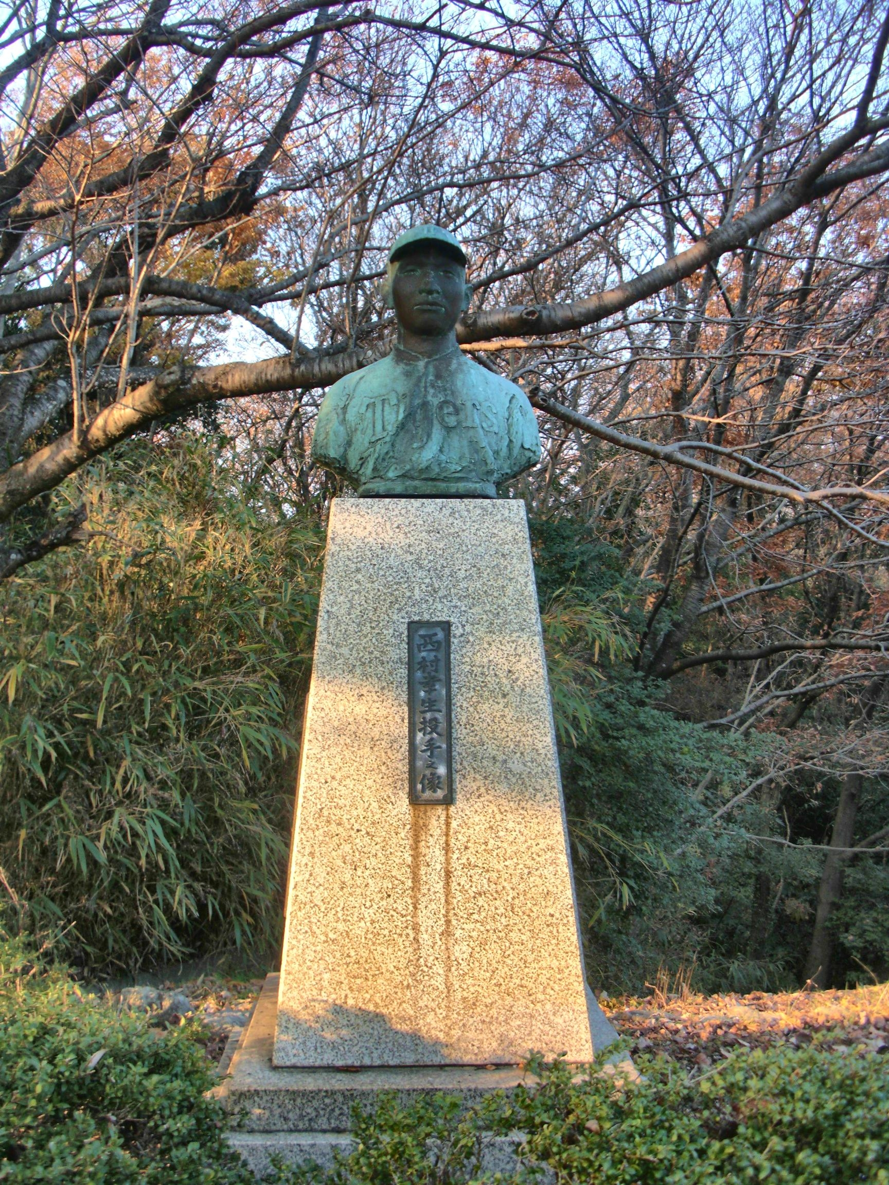 This is a statue of Yukio Nishimura, who was a great baseball player. This statue is in Ise city, hometown of Nishimura.